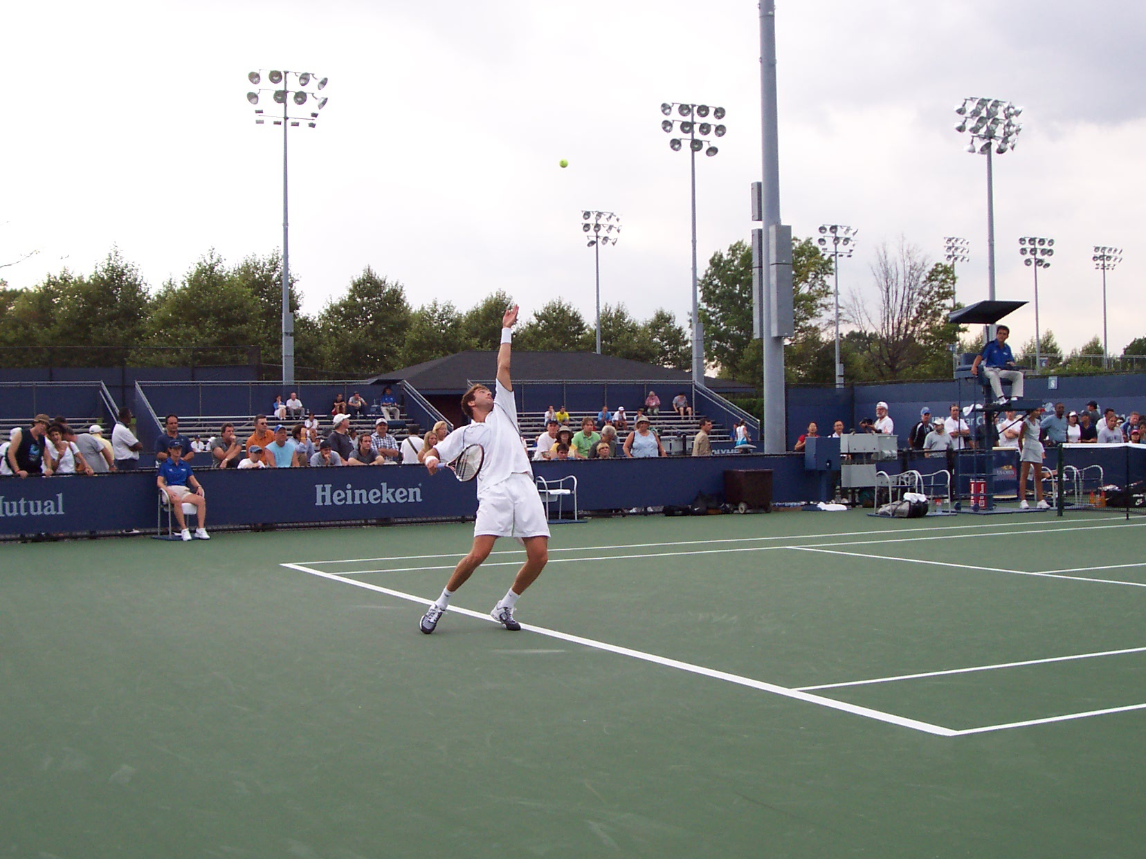 Justin Gimelstob At The 2004 U.S. Open Qualifying